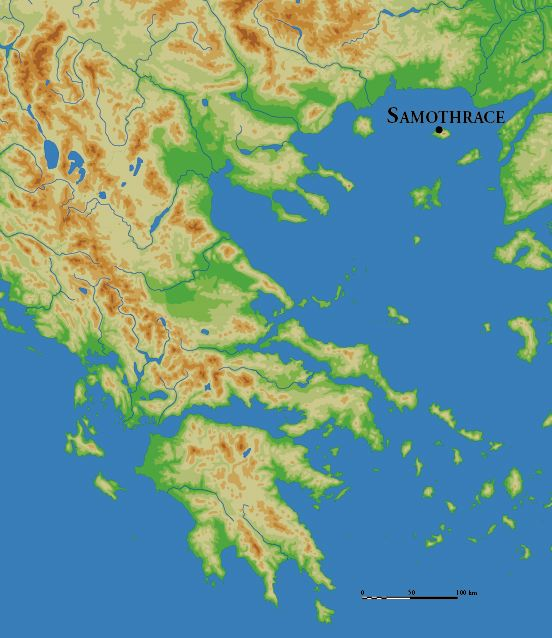 Samothraki's location in Greece. Map drawn by Marsyas 16:42, 9 Apr 2005 (UTC).